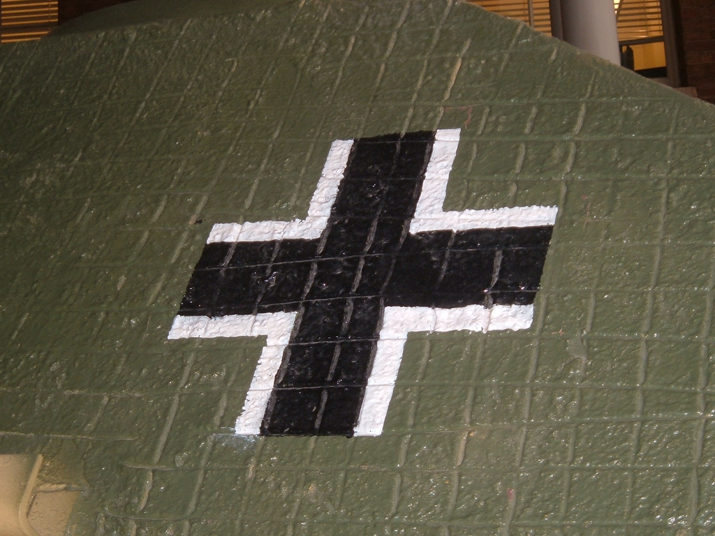 You can clearly see the concrete like Zimmerite coating applied to this Assaualt gun tank. Incidentally the title translates as "Black Cross" . . . .I hope.